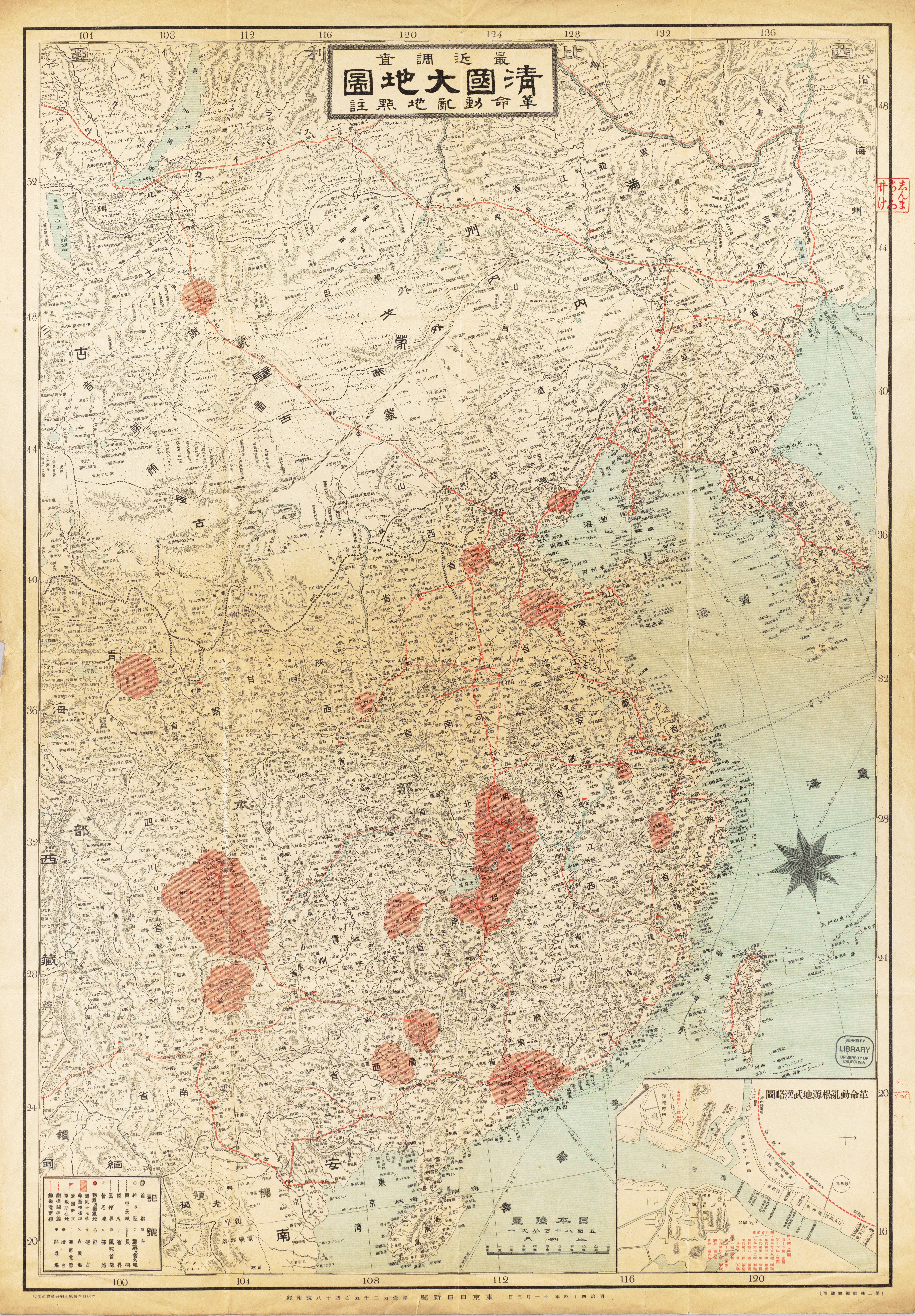 Japanese made map of Qing China during the Wuchang Uprising